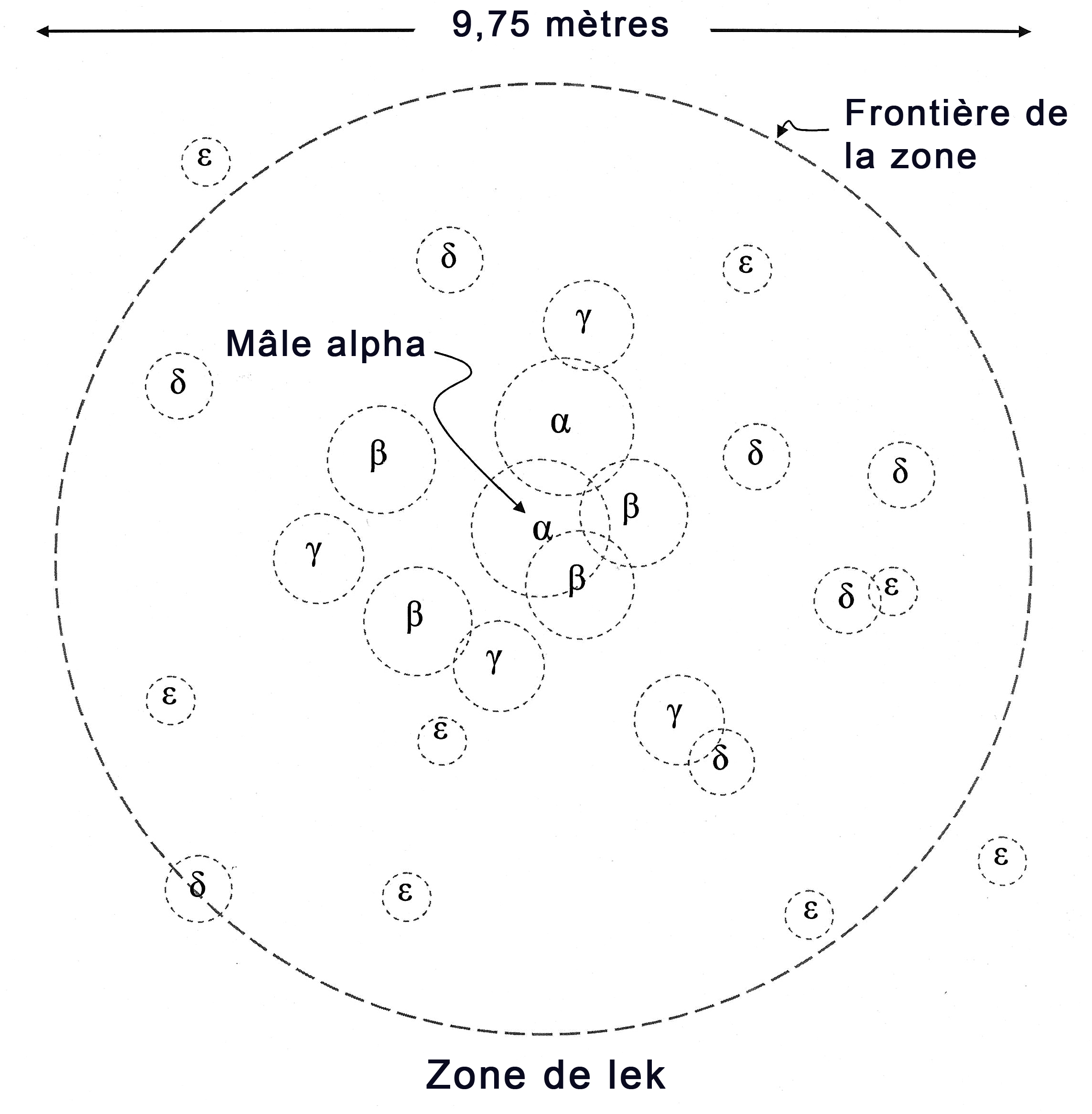 Modification of Lek-diagram.jpg